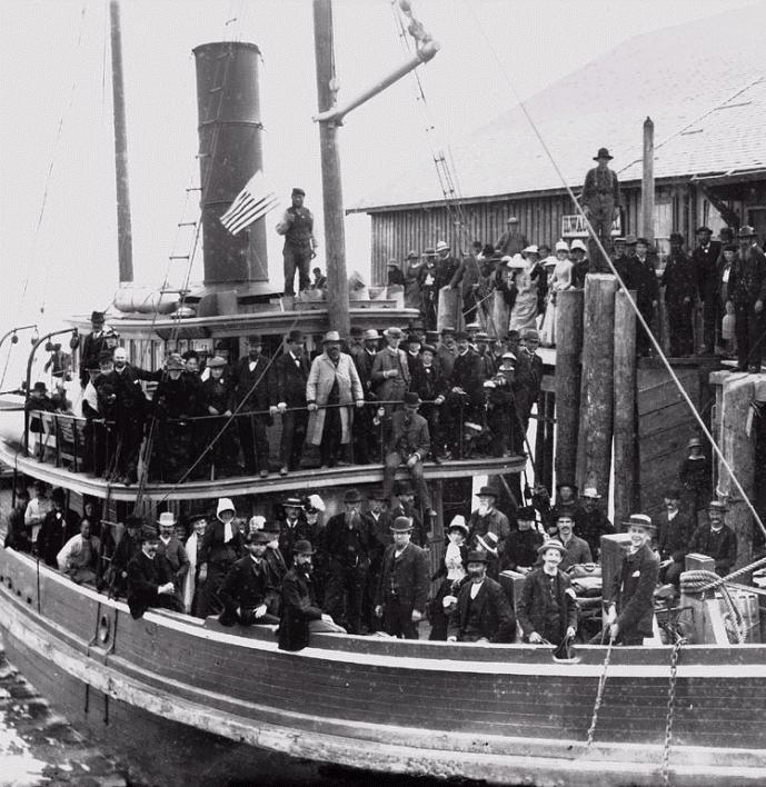 The steamer General Miles at a landing at Ilwaco, Washington.